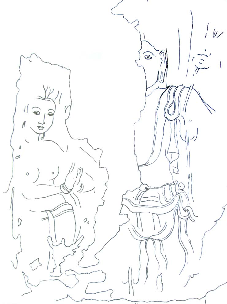 Drawing of an ancient painting found from Gonagolla cave, Ampara, Sri Lanka. Belongs to later Anuradhapura era. Depicts a man with a woman.